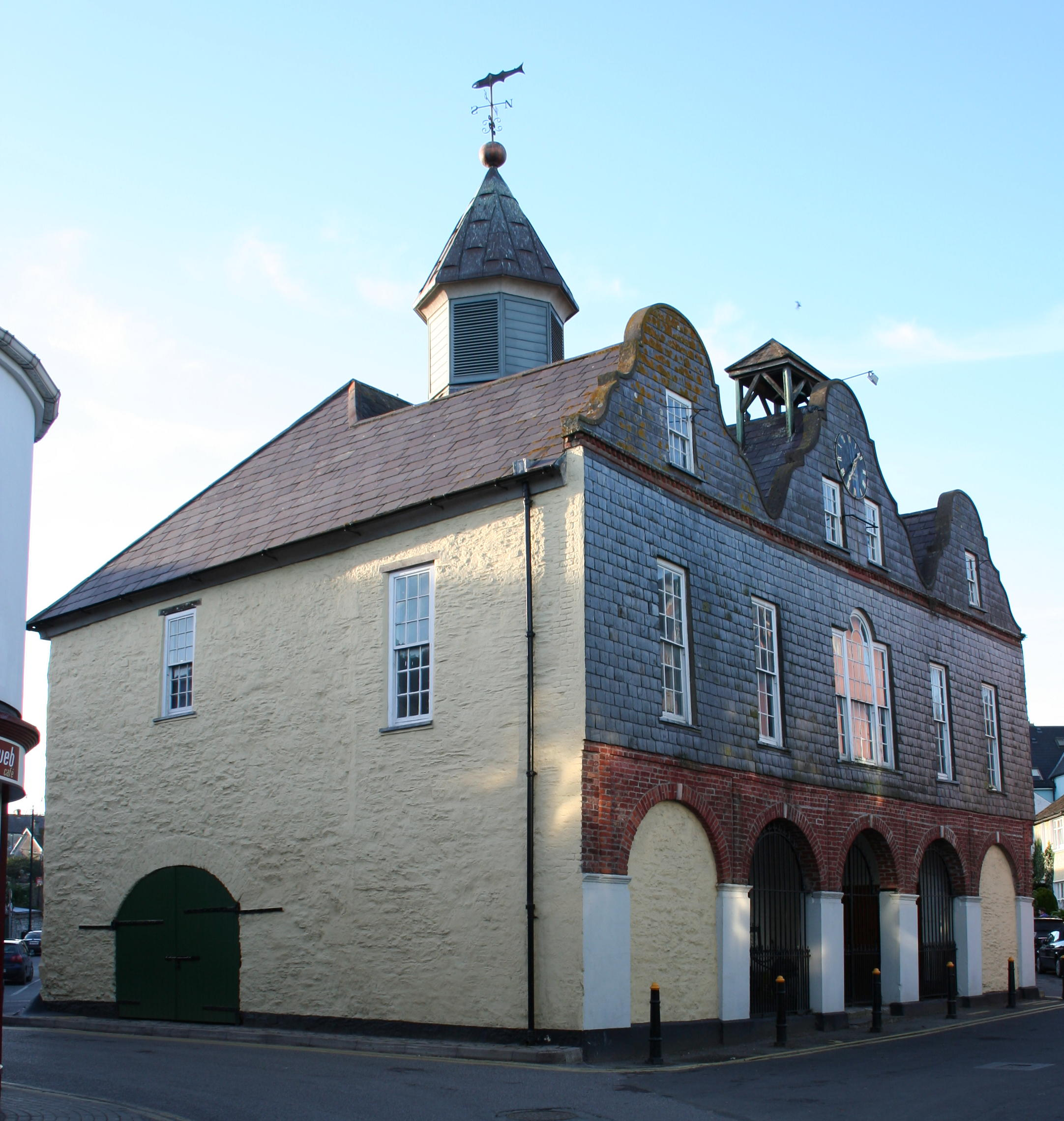 Kinsale Market House Credit: A Peter Clarke image